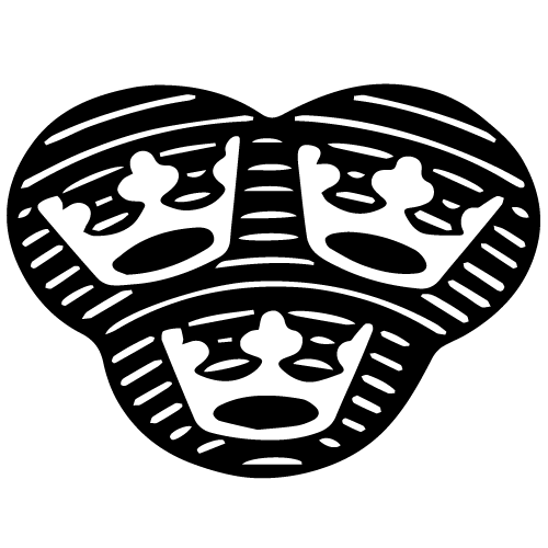 The "Kattfot" is the Swedish hallmark of gold purity and authenticity.